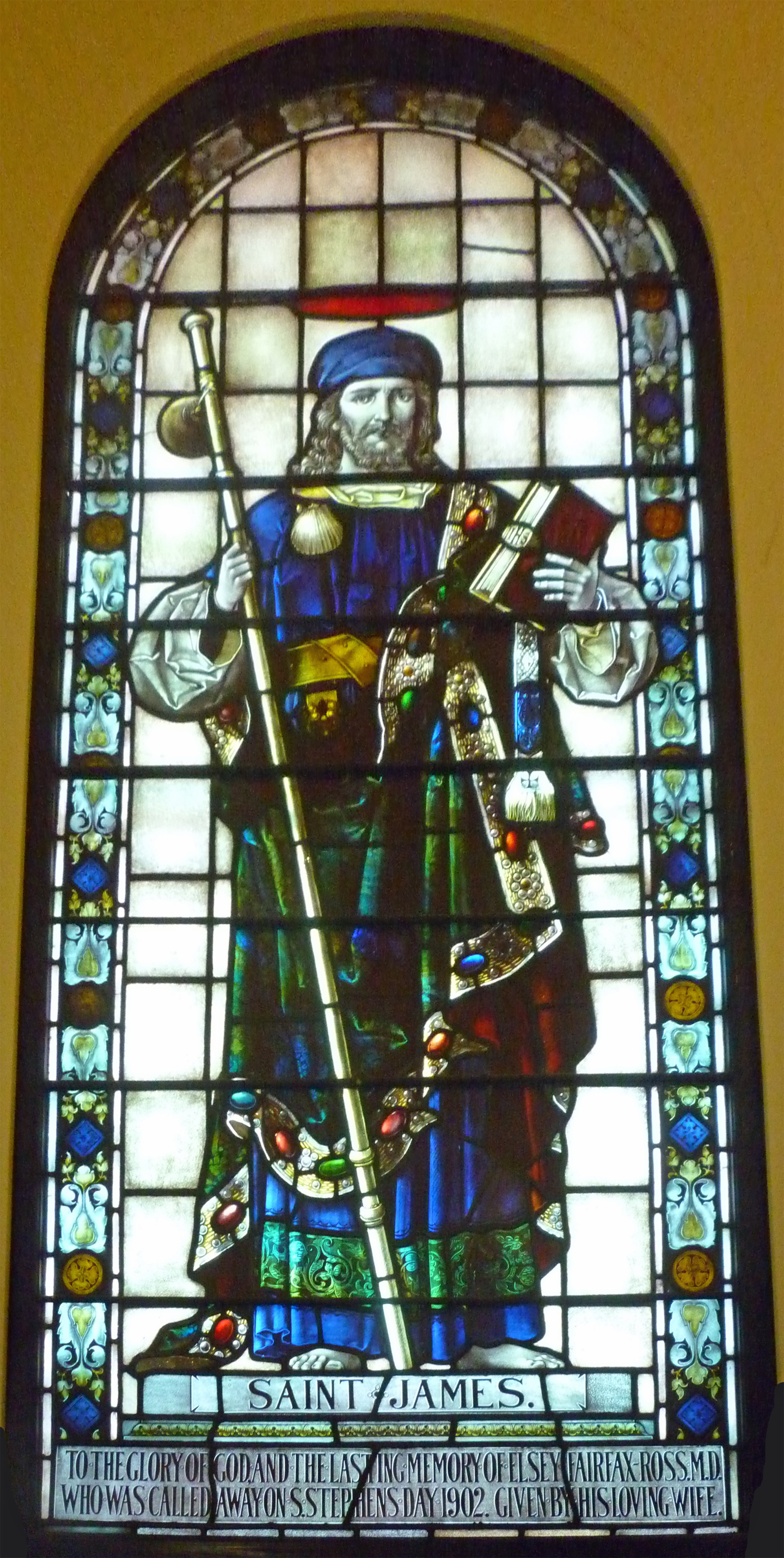 St James Church, Sydney - Stained glass window